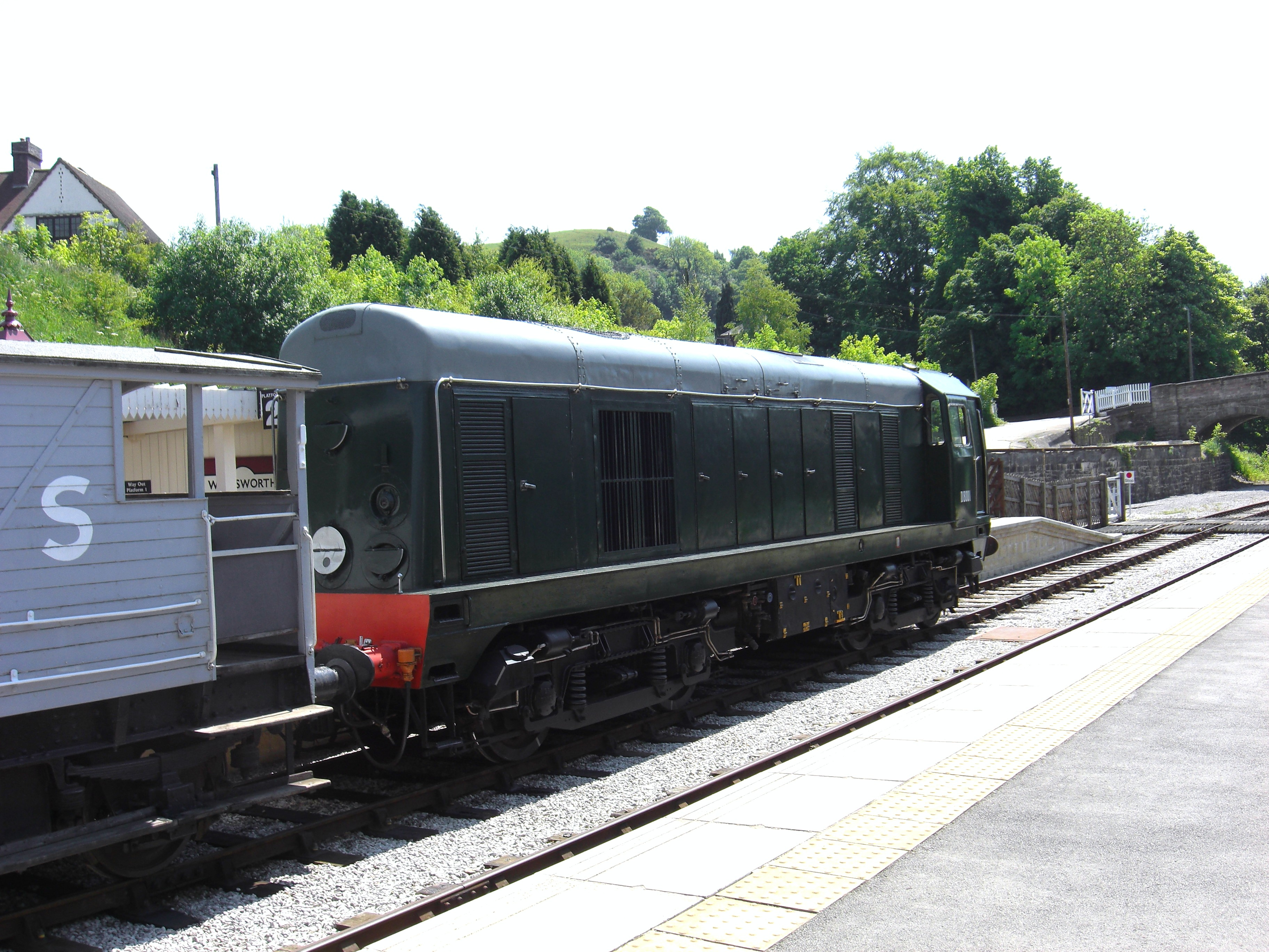 Prototype Class 20 D8001 stands at Wirksworth waiting for departure on a goods working.